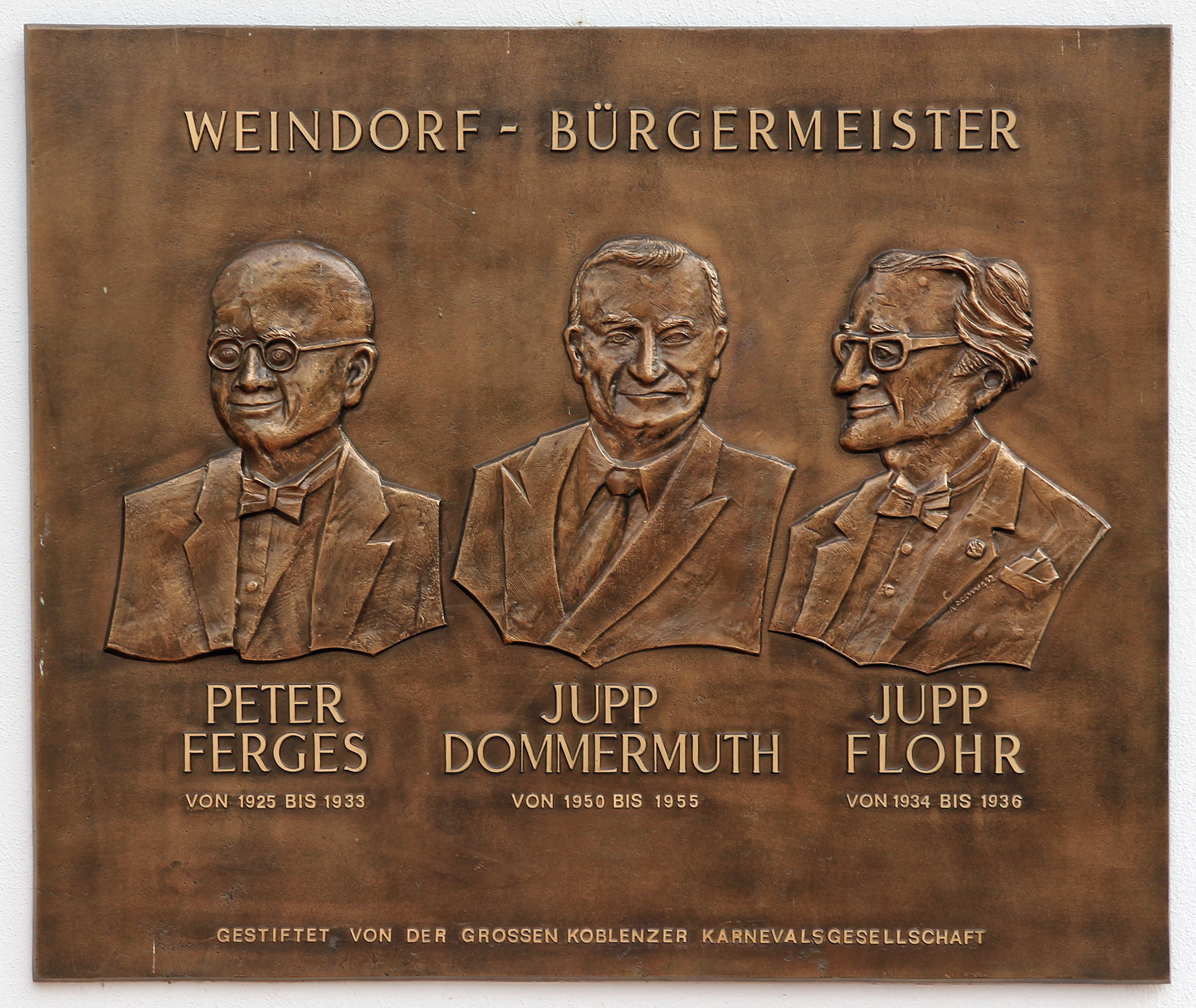 Plaque with mayors of the Weindorf in Koblenz